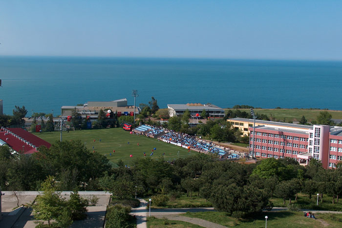 ktü